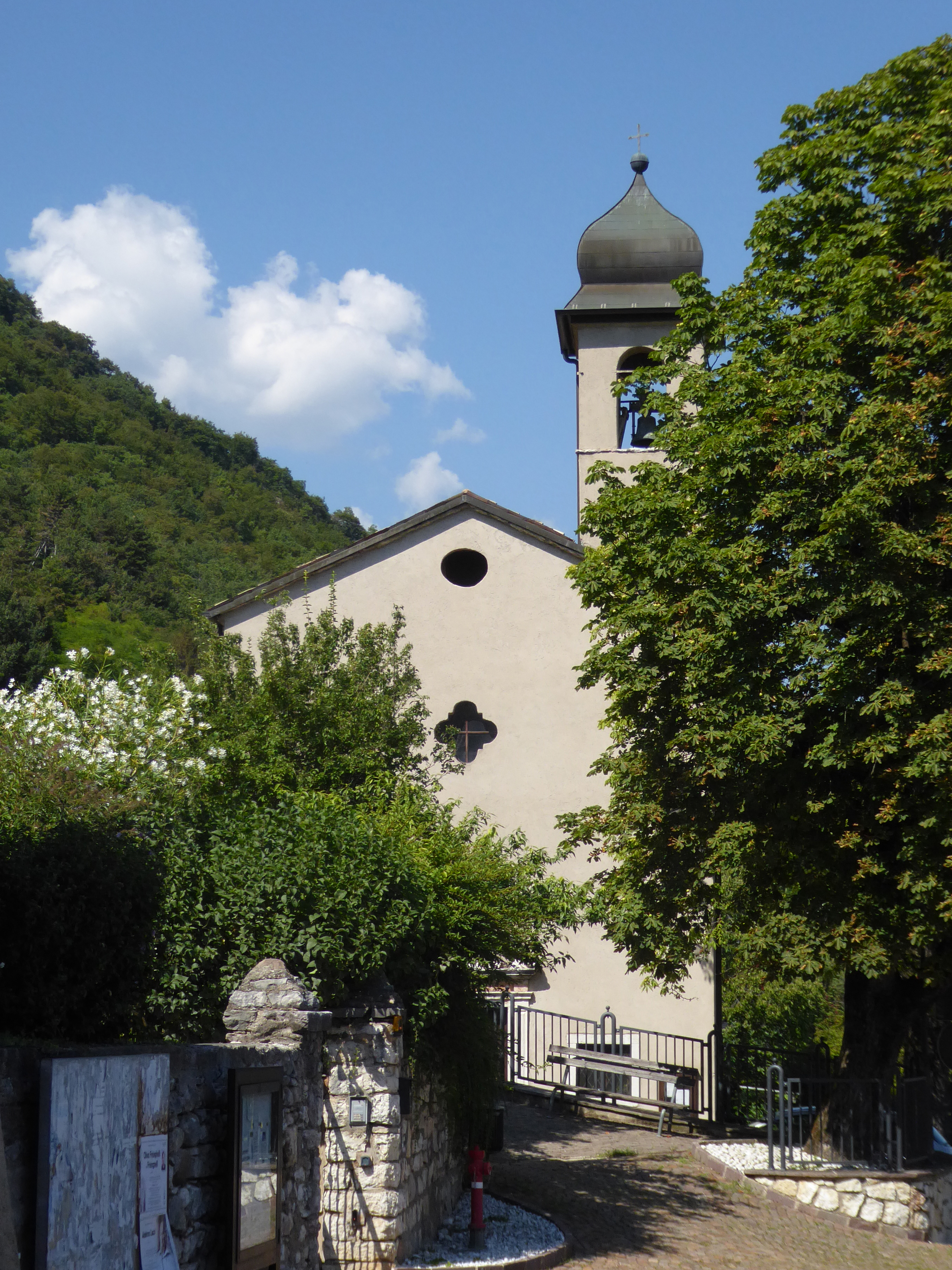 Reviano (Isera, Trentino, Italy) - Saint Anne church